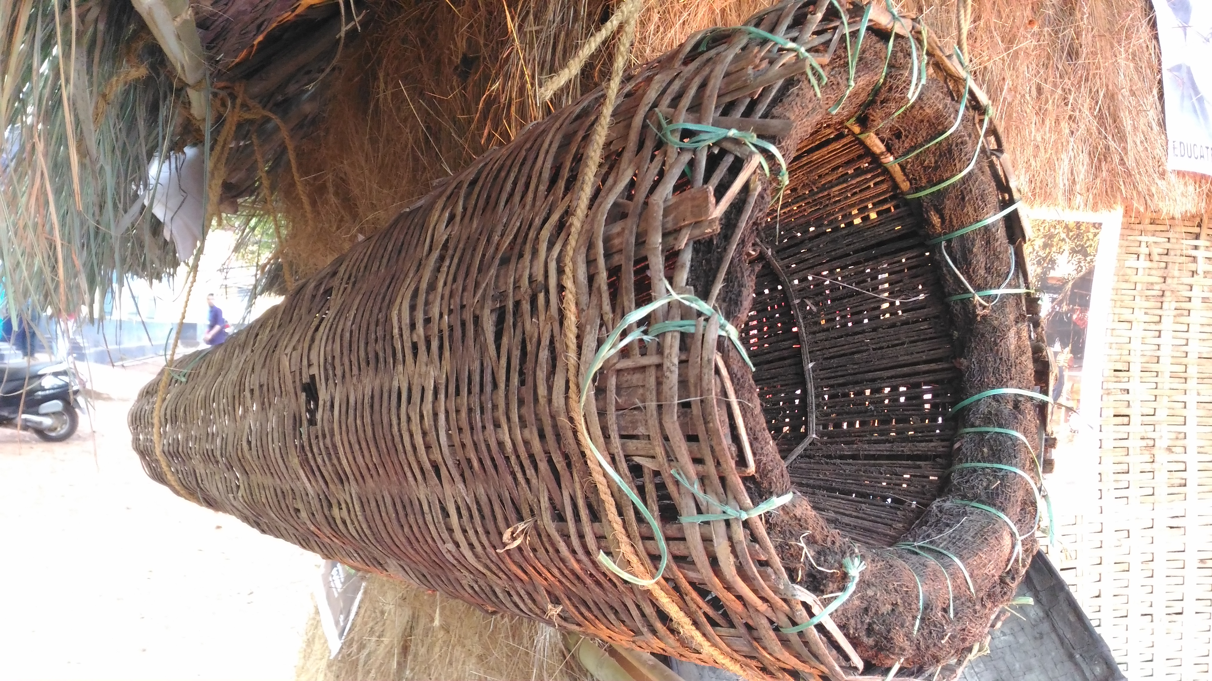 Kuthukoodu_ An instrument to capture fish